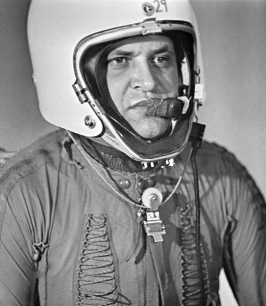 “Powers Wears Special Pressure Suit”. Francis Gary Powers wearing special pressure suit for stratospheric flying was an American spy whose Lockheed U-2 reconnaissance plane was shot down by a Soviet surface-to-air missile outside Sverdlovsk.